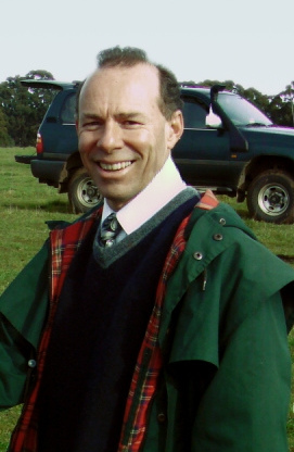 Geoff Howard at Leonards Hill, announcing a grant to Hepburn Wind